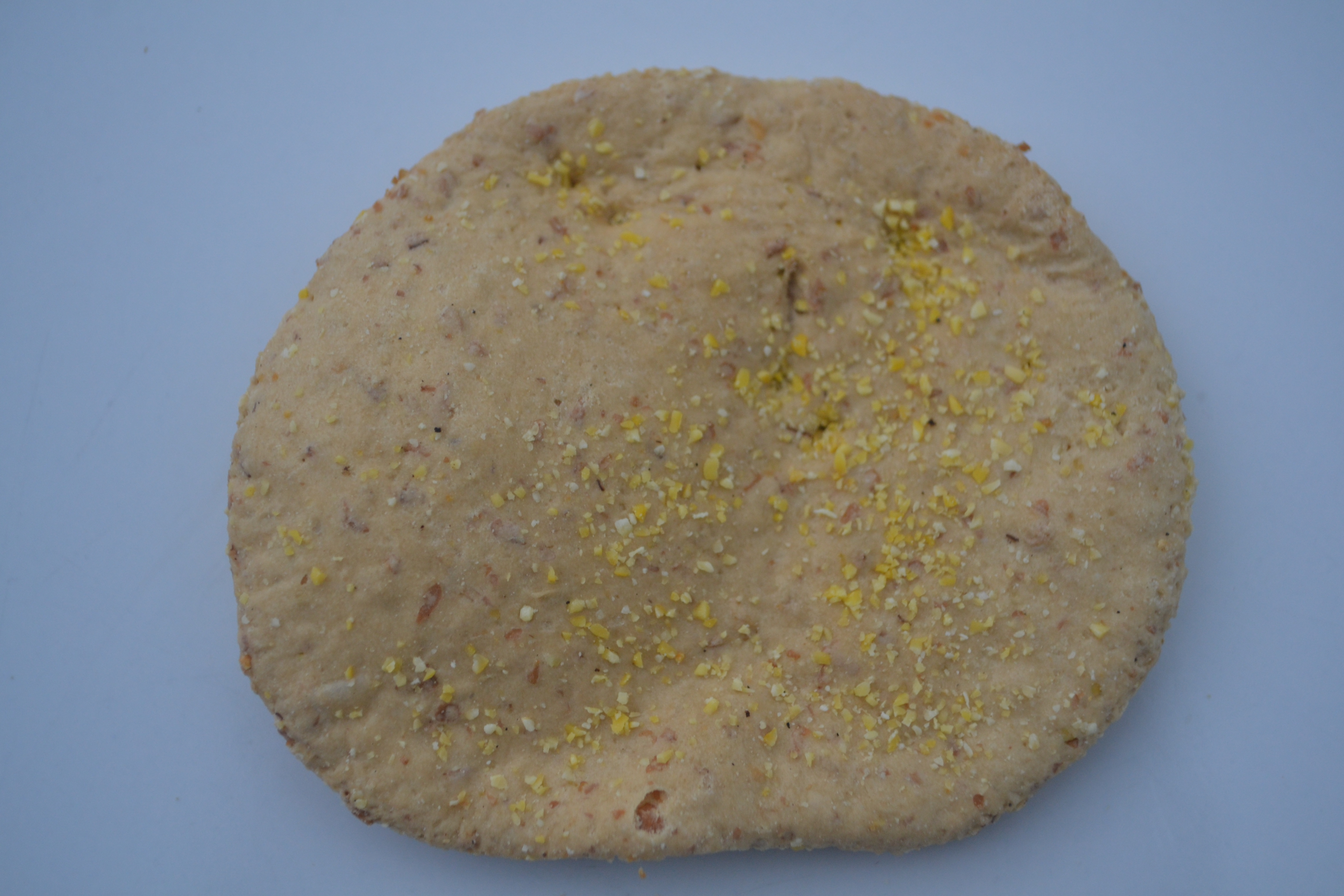 Sea biscuit